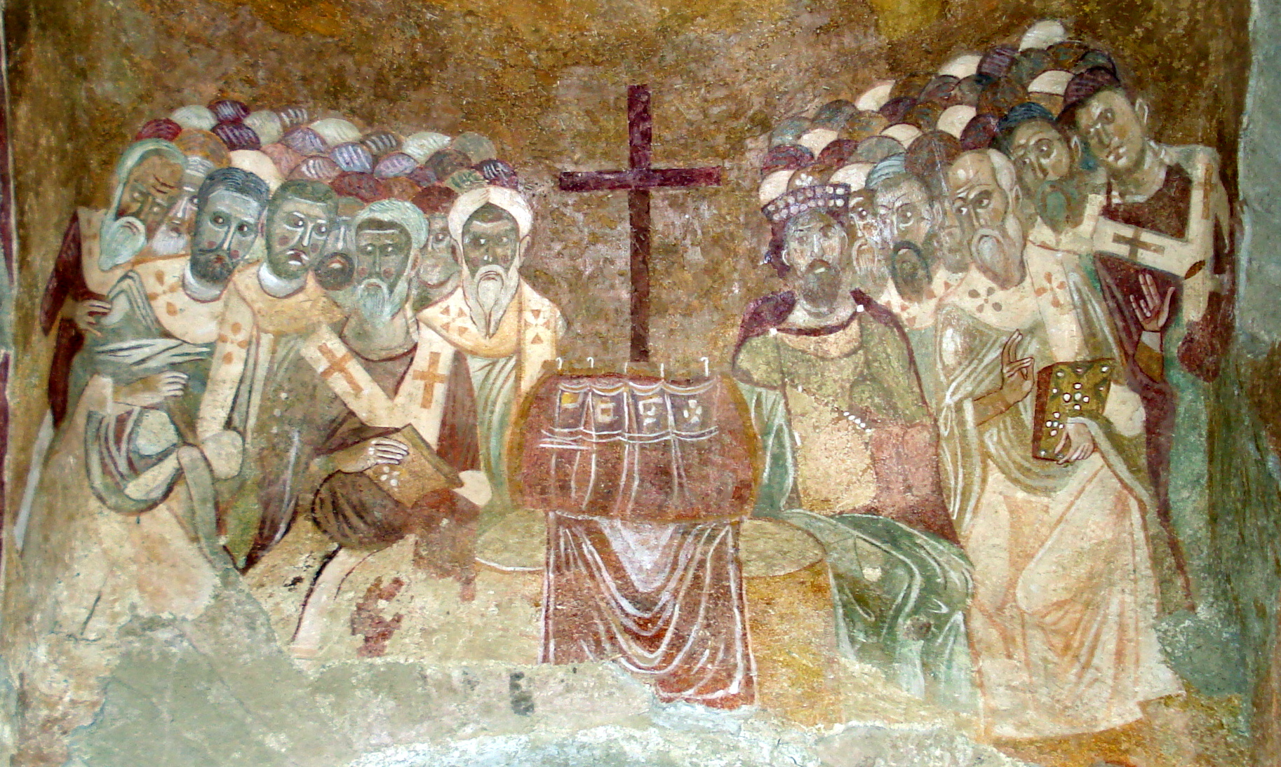 Byzantine fresco representing the first Council of Nicea. Bishop Saint Nicholas of Myra is one of the participants. Church of Saint Nicholas, Myra (nowadays Demre, Turkey).